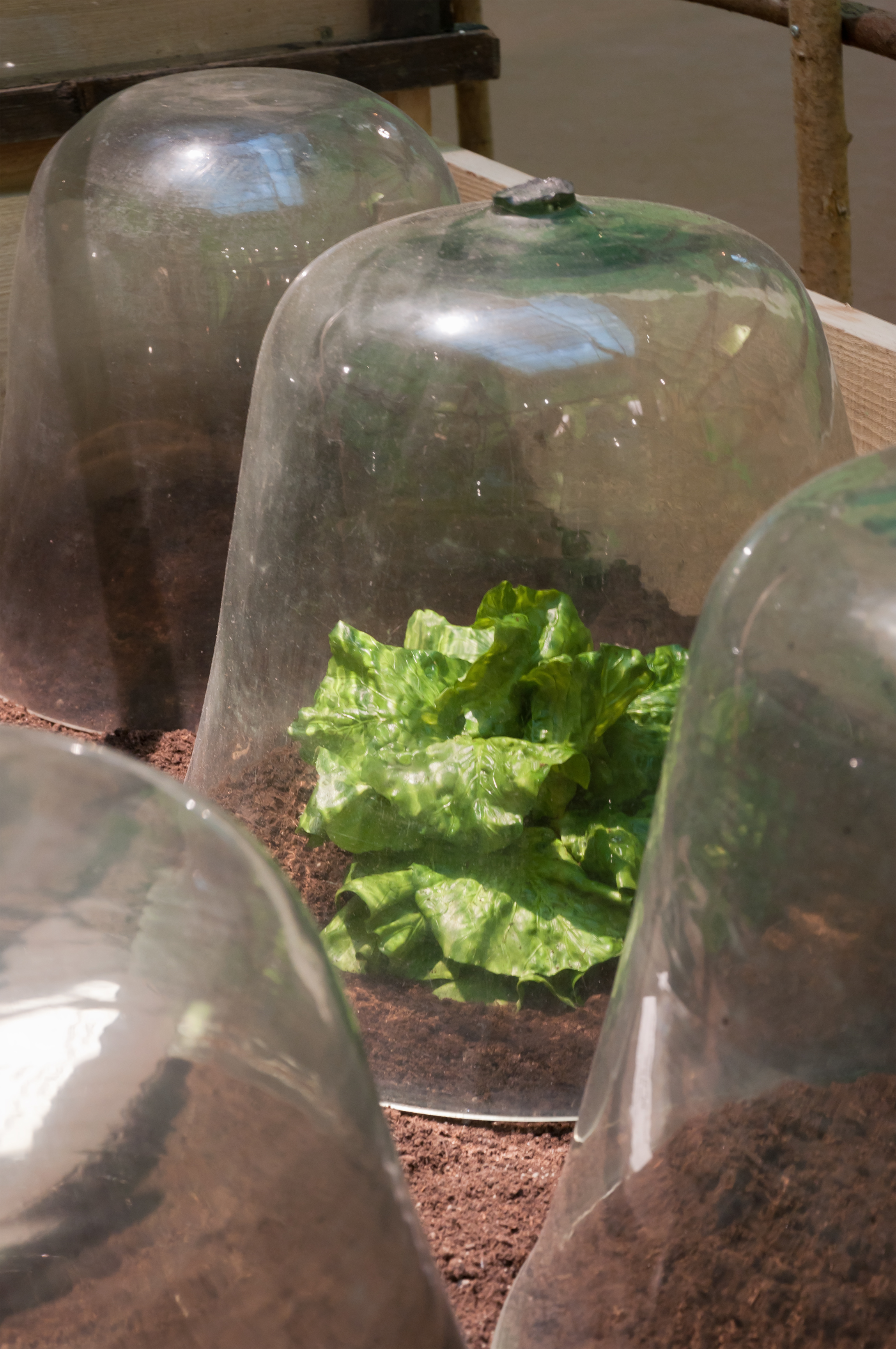 Cultivation under glass bells; here, a lettuce (Lactuca sativa) Exhibition « Savez-vous plantez les choux ? » ('Do you know how to plant cabbage?'), June—November 2012, Parc de Bagatelle, Paris, France.